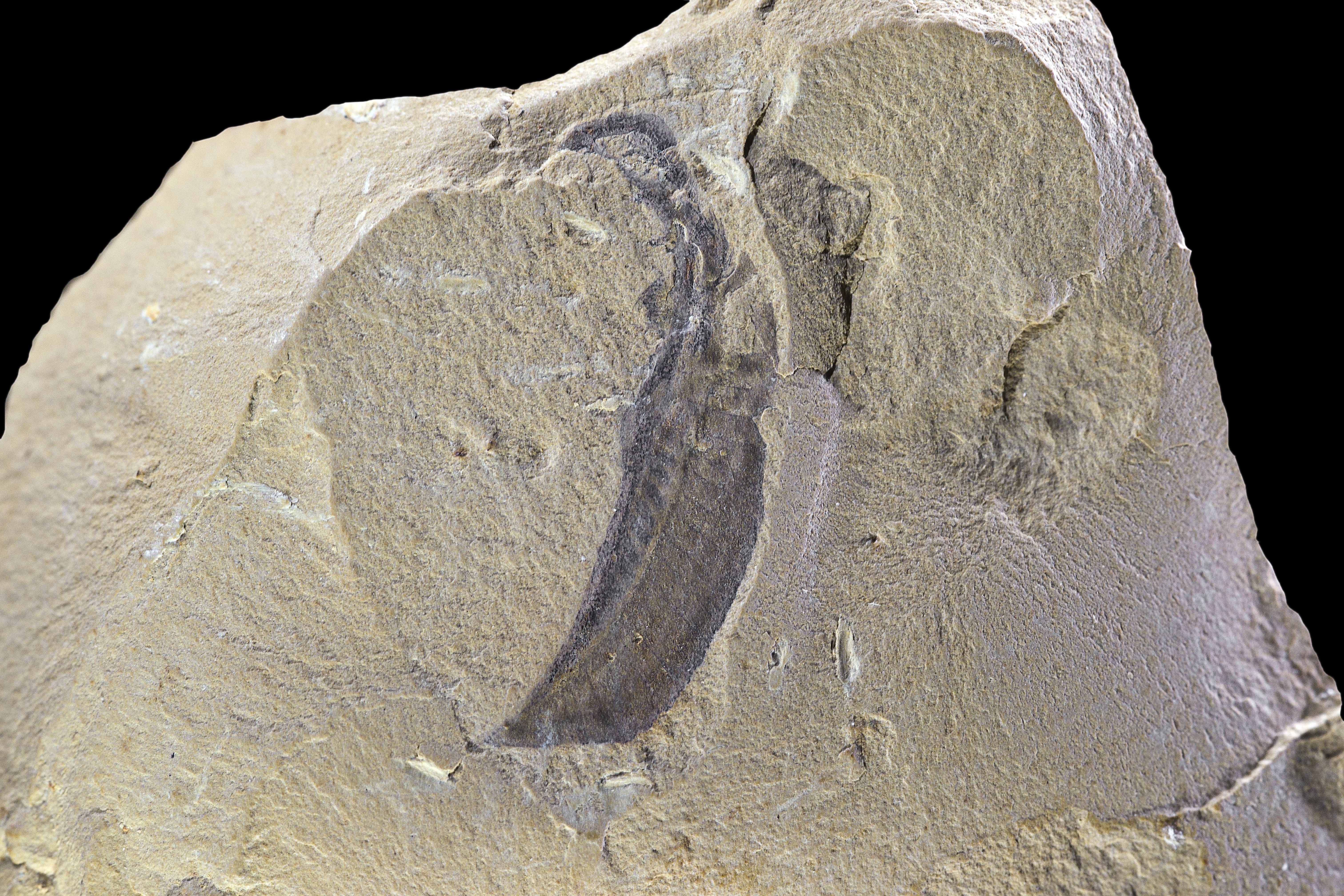 Haikouella lanceolata (Primitif chordate – ancestral vertebrate) Locality : Maotianshan Shales Chengjiang County, Yunnan Province, China Stage :Early Cambrian (530 million yeras old) Size : of Haikouella 5.2 cm